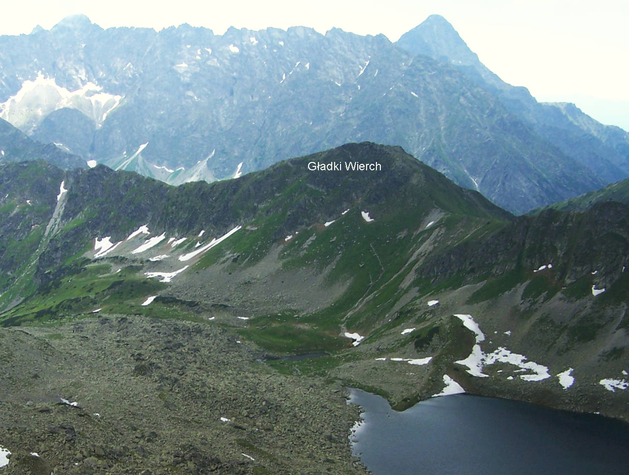 Gładki Wierch (High Tatra Mountains)